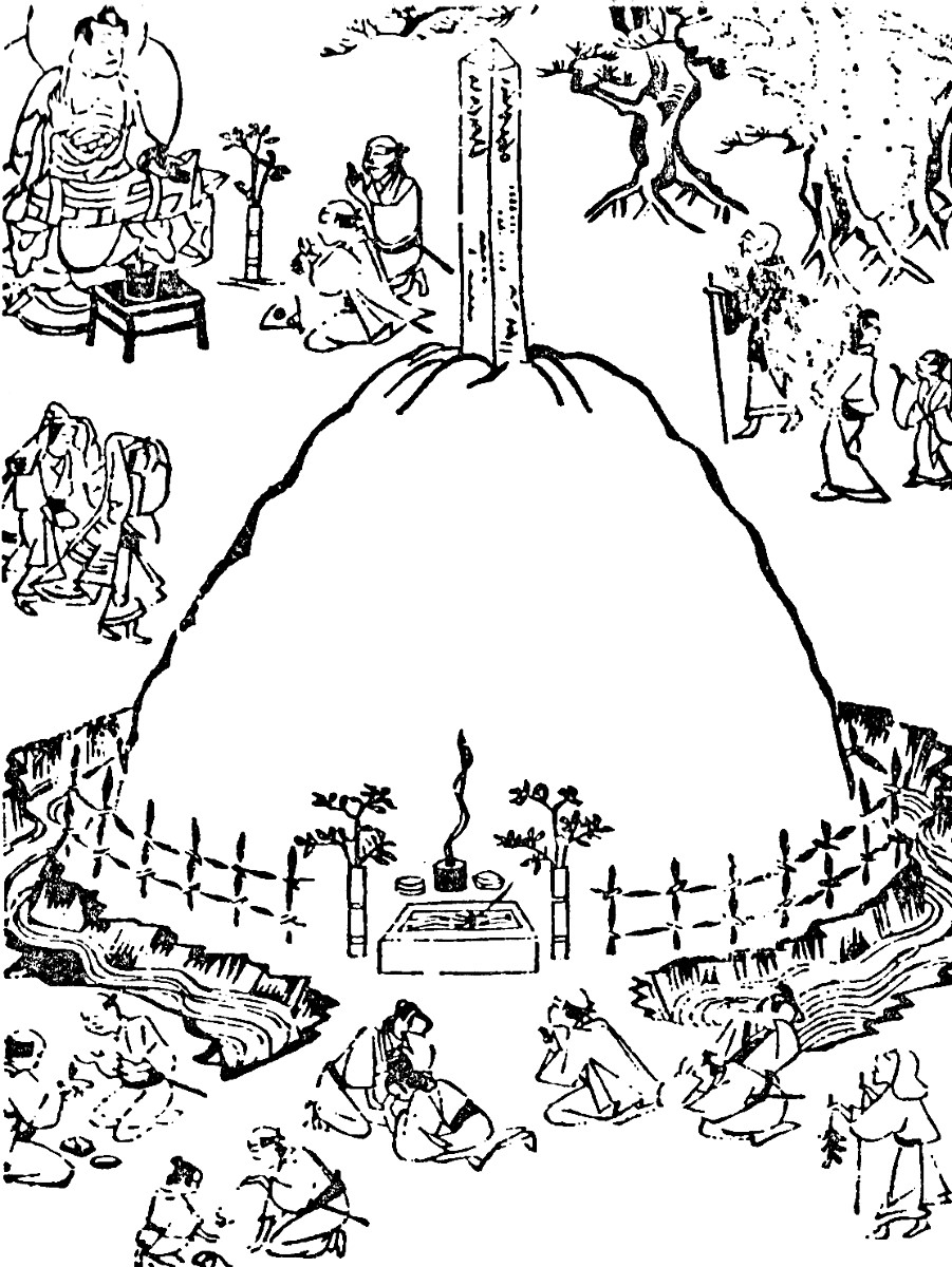 Ekoin temple with earthmound for the Meiriki deaths